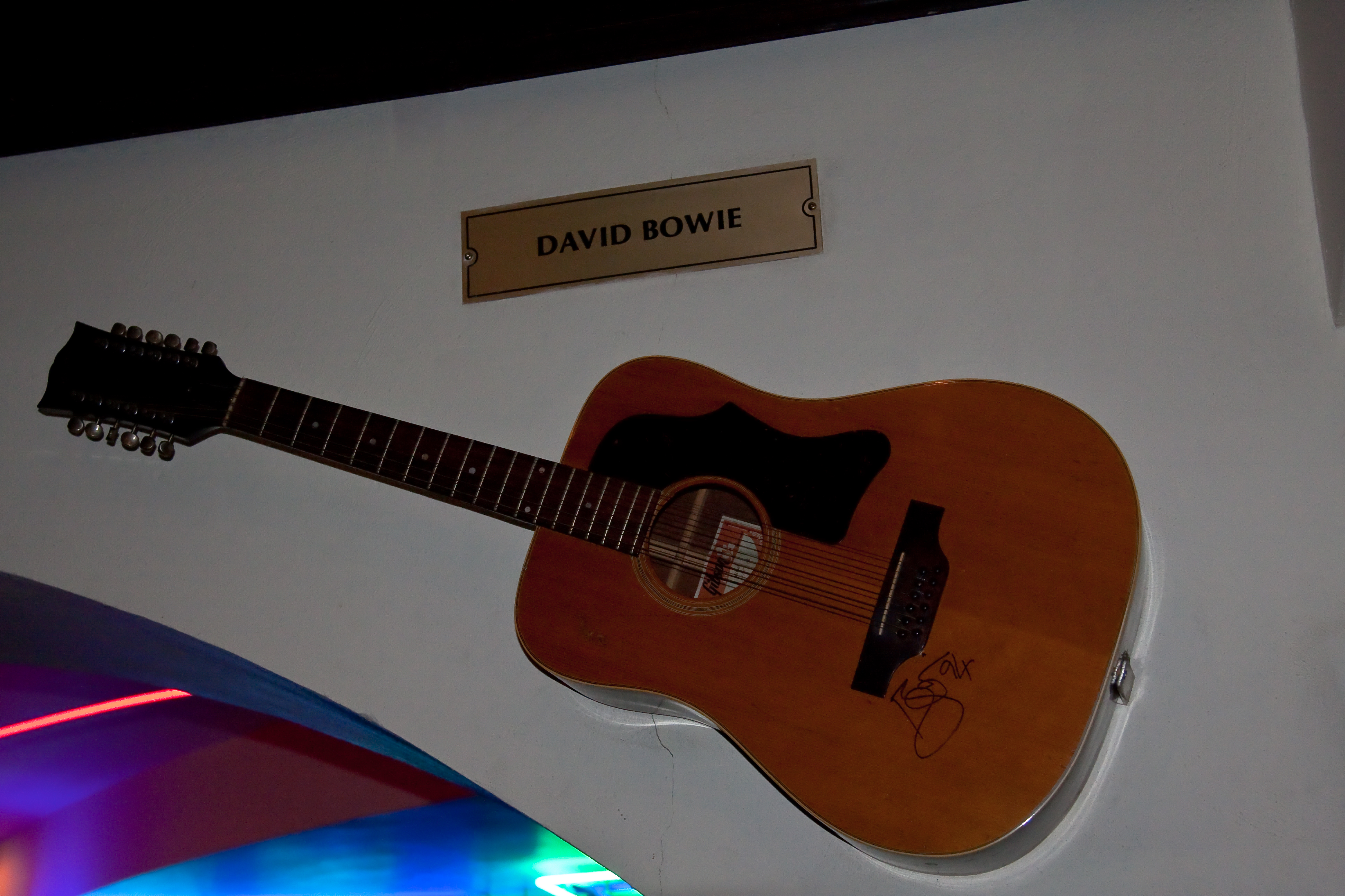 David Bowie's 12 string Gibson in Hard Rock Café Hurghada